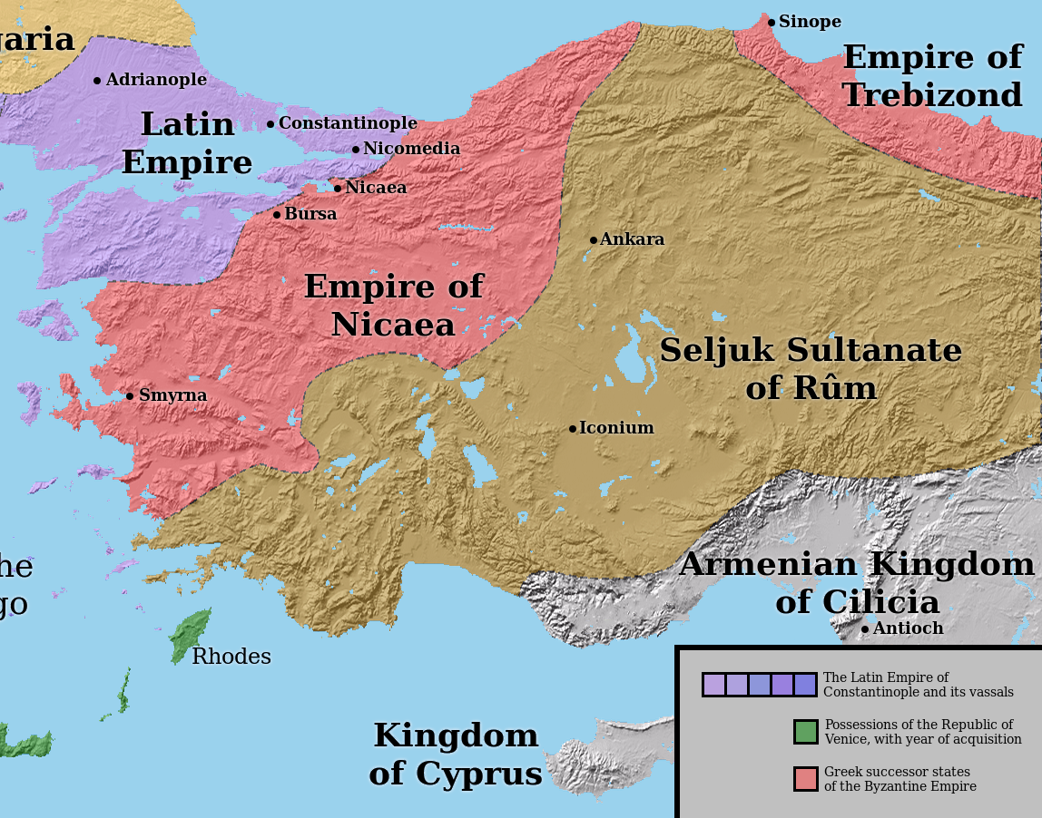 The Latin Empire and the Partition of the Byzantine Empire after the 4th crusade, c. 1204; borders are approximate.